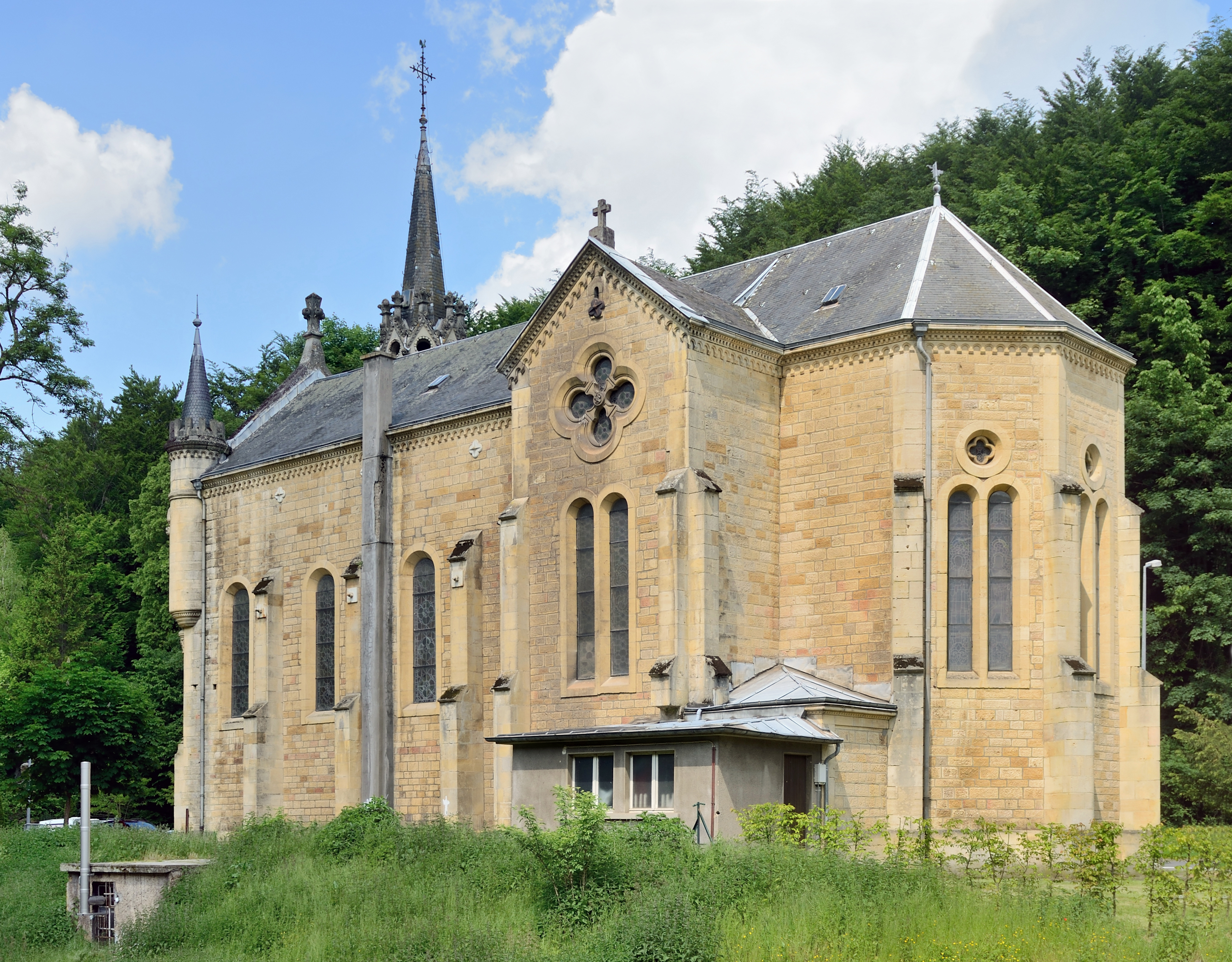 Church in Lasauvage, Luxembourg, seen from the SSW.